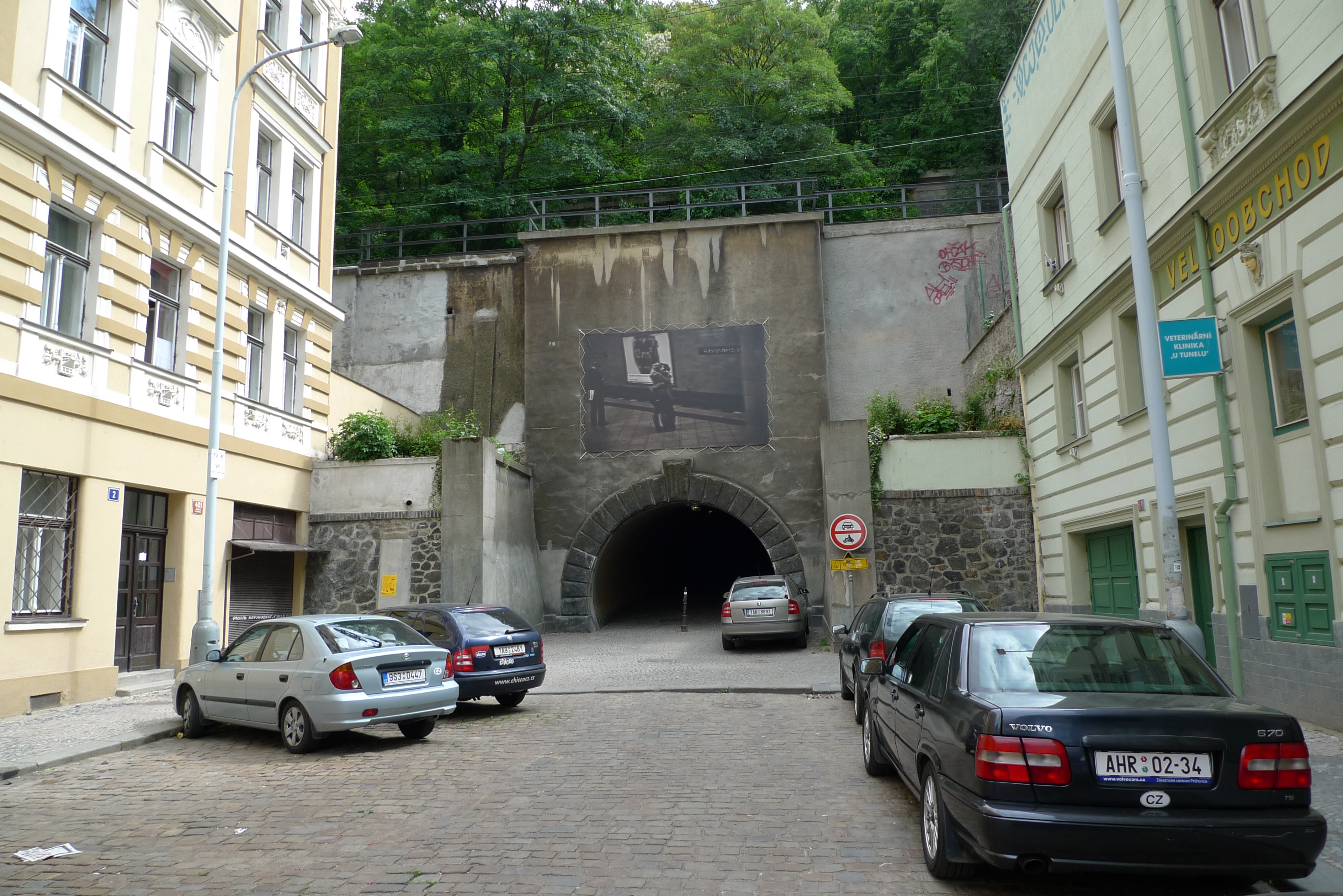 Pedestrian tunnel at Prague-Karlín, Czech Republic, photographs by Jiří Turek, Karlin exit